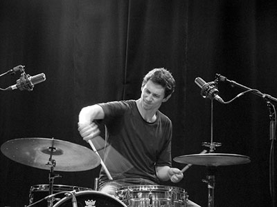 Stefan Pasborg